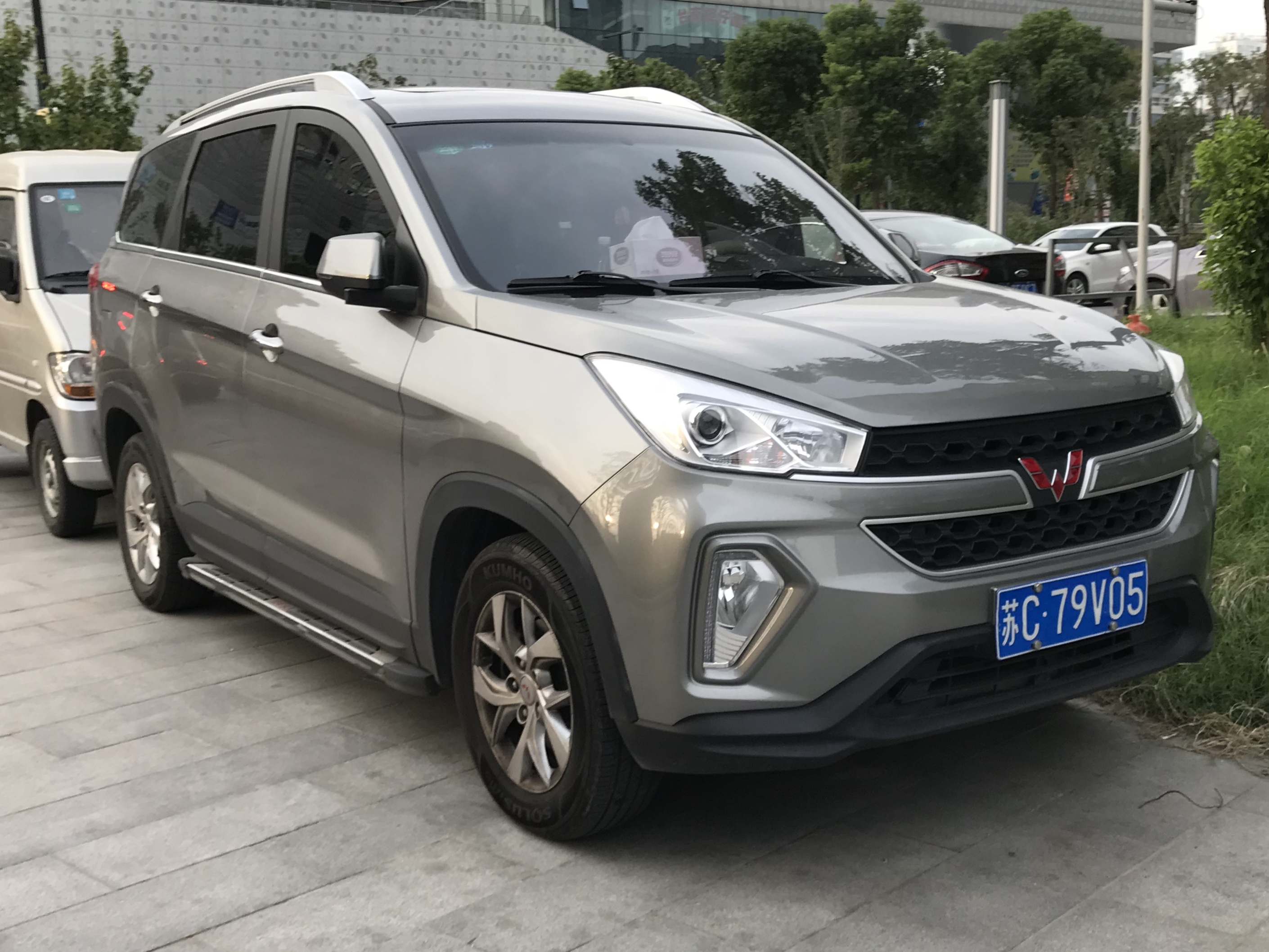 Wuling Hongguang S3